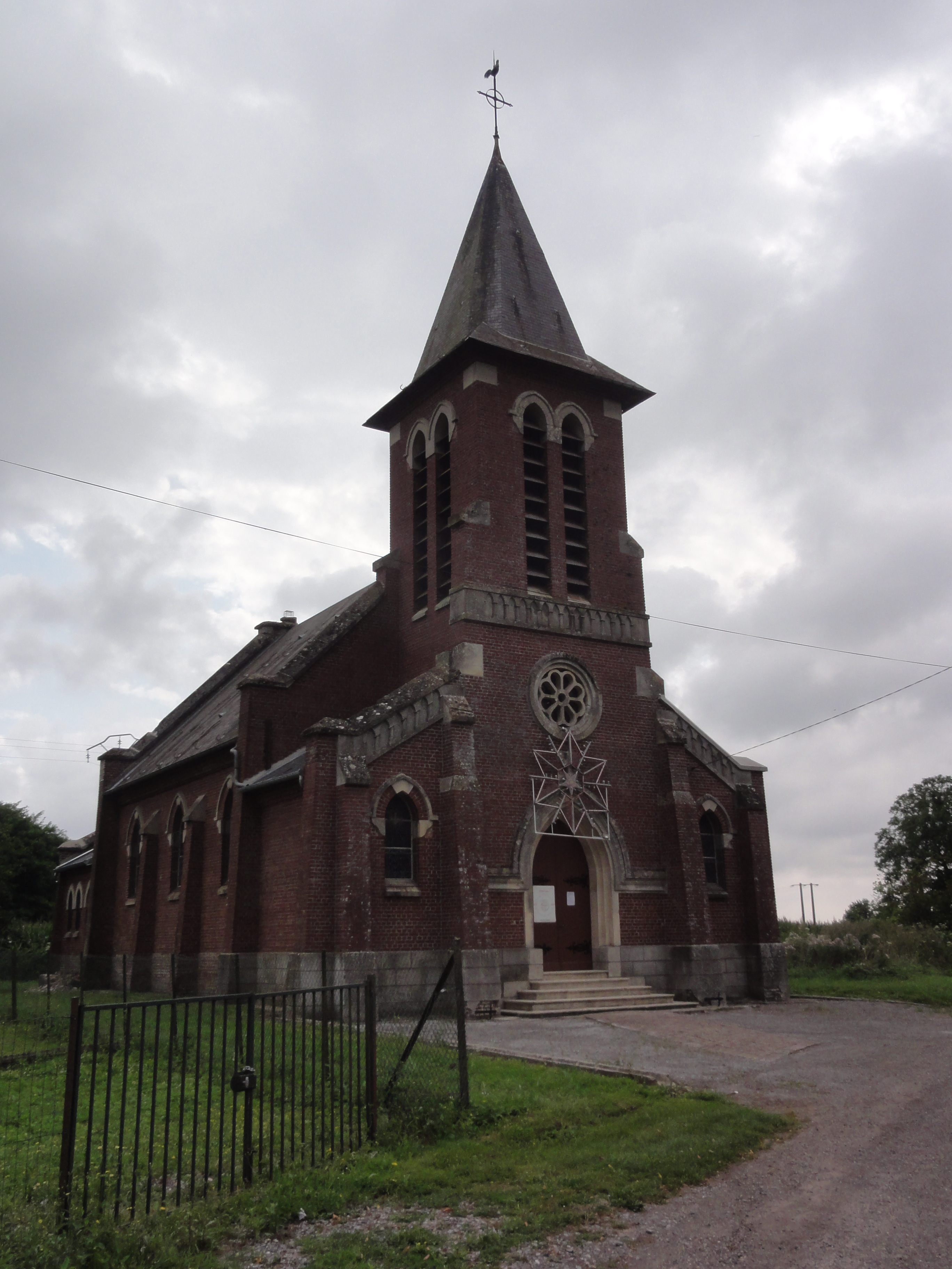 Trefcon (Aisne) église Saint-Martin